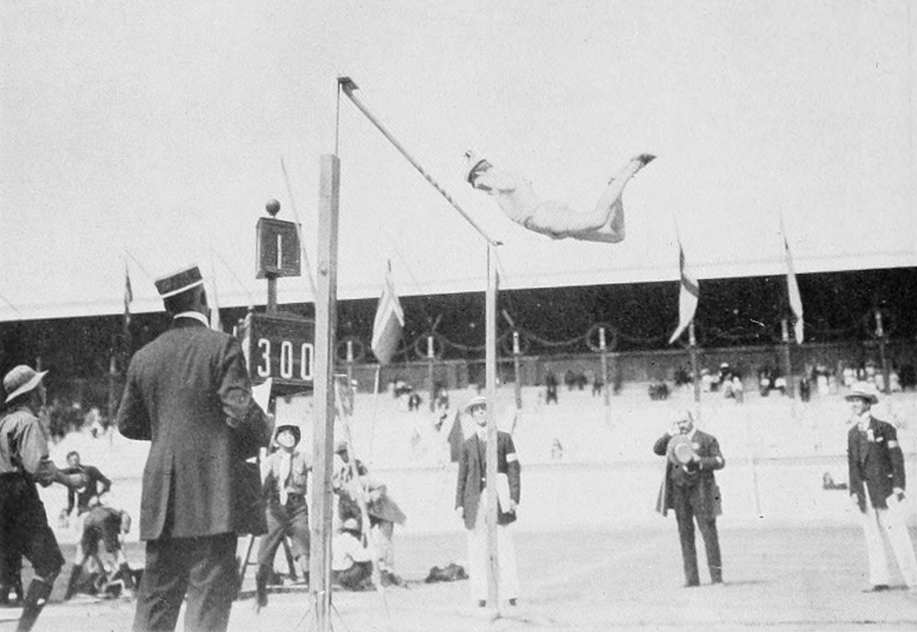 Hugo Wislander during the decathlon competition at the 1912 Summer Olympics - pole vault